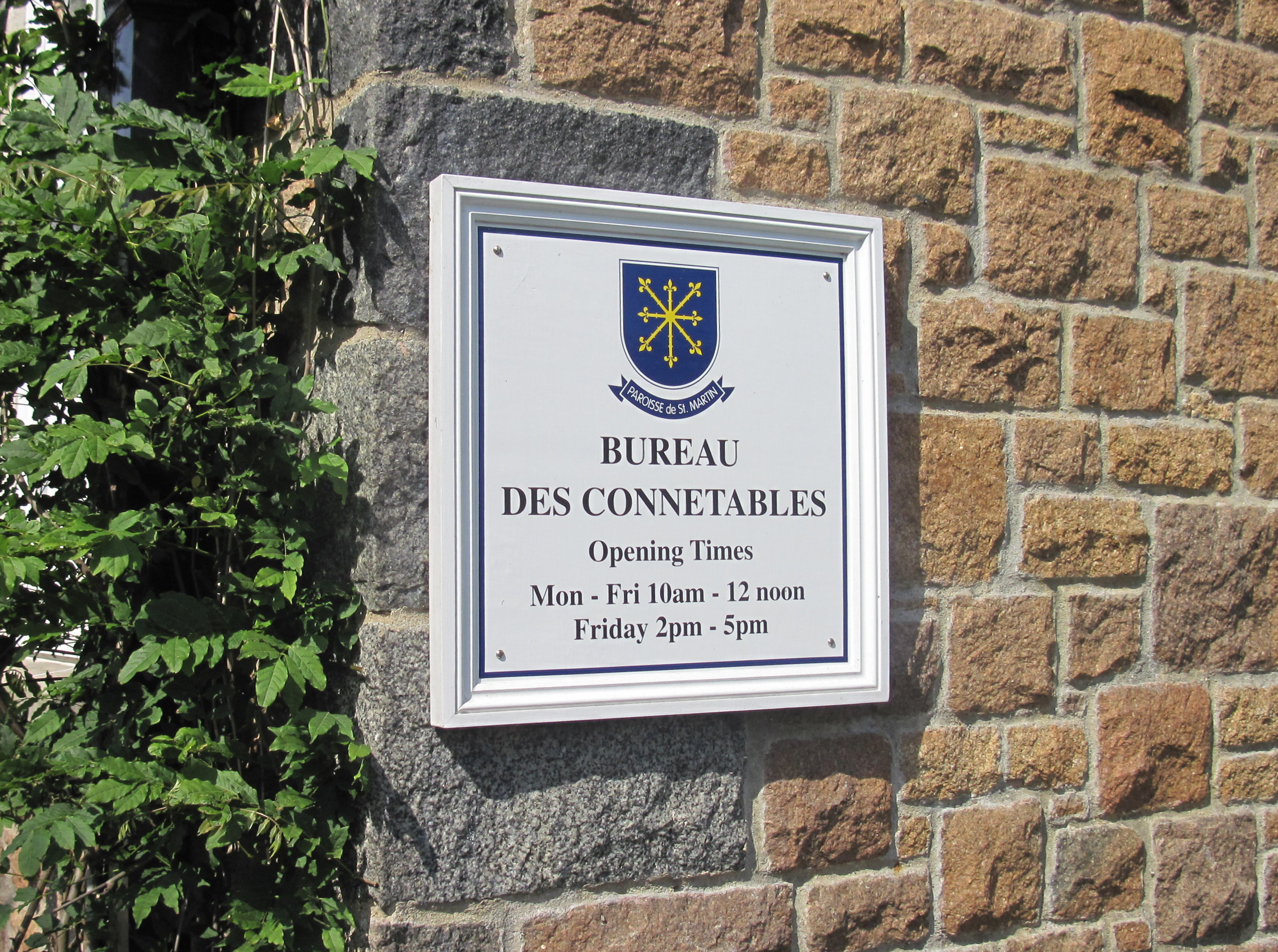 Guernsey, June-July 2011: St Martin, constables' office